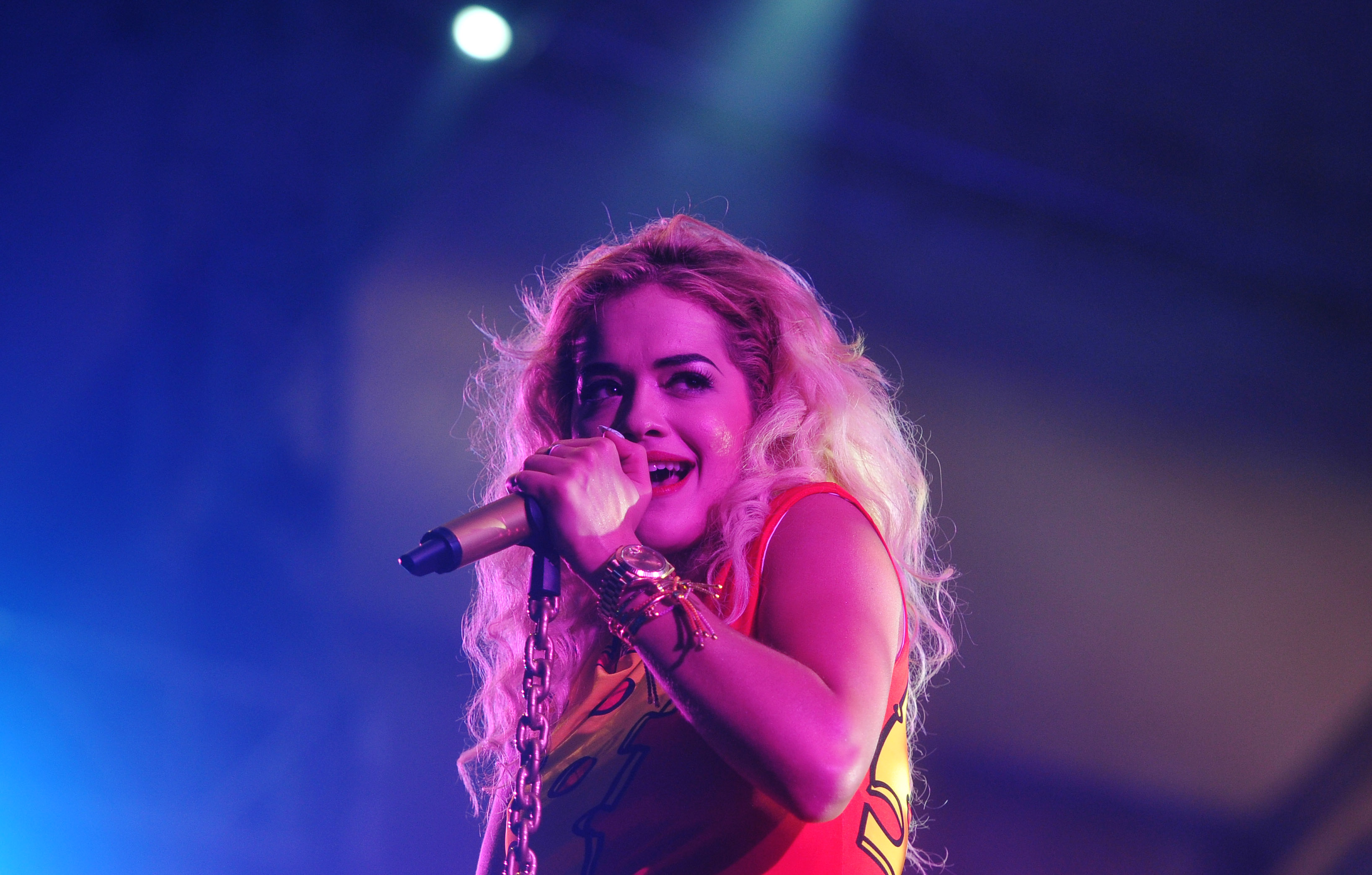 SEPANG,17/03/2013. Rita Ora during Future Music Festival Asia 2013 at Sepang. Pix Firdaus Latif